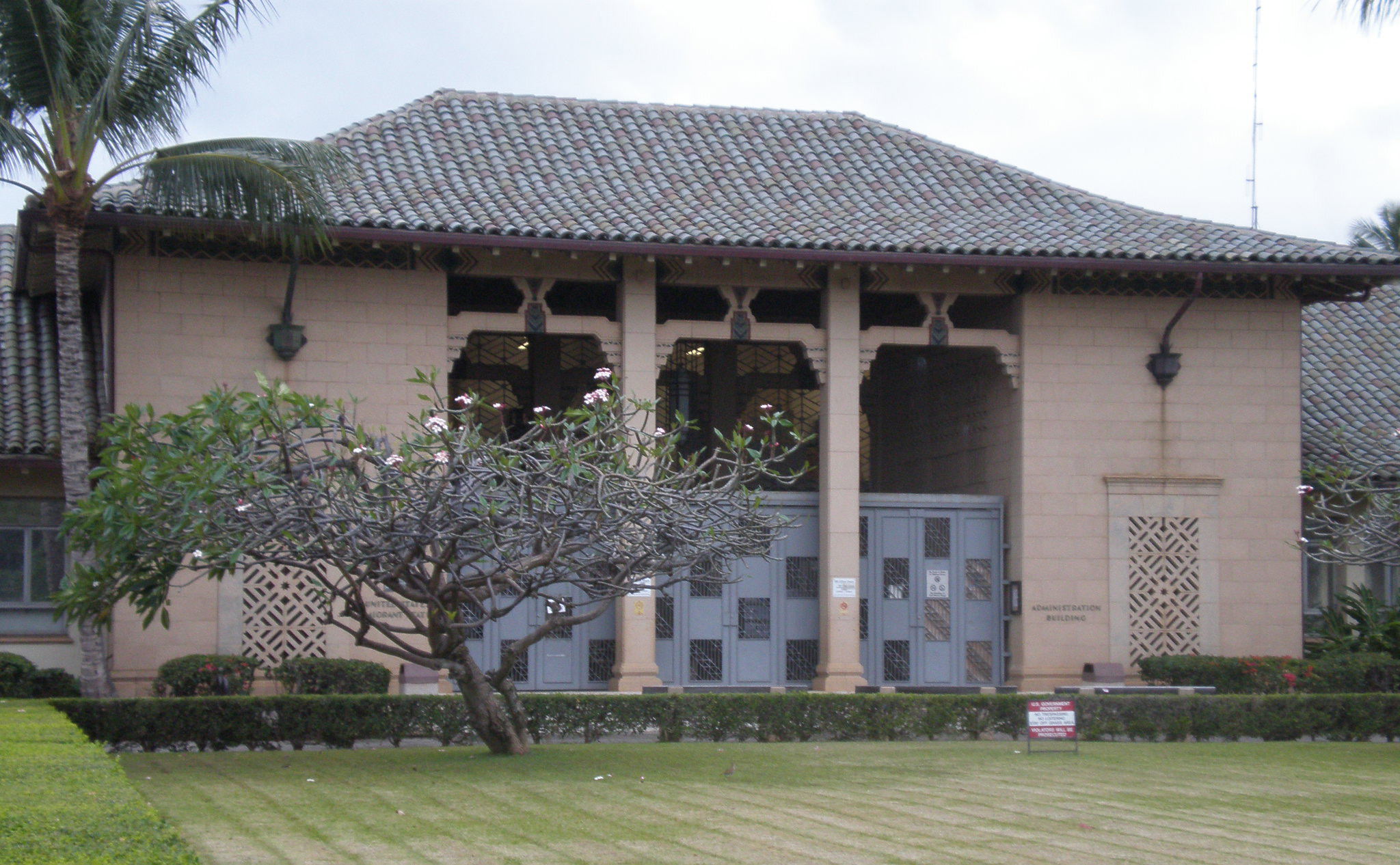 U.S. Immigration Station, 595 Ala Moana Boulevard, Honolulu, Hawaii, on National Register of Historic Places, designed by architect C. W. Dickey